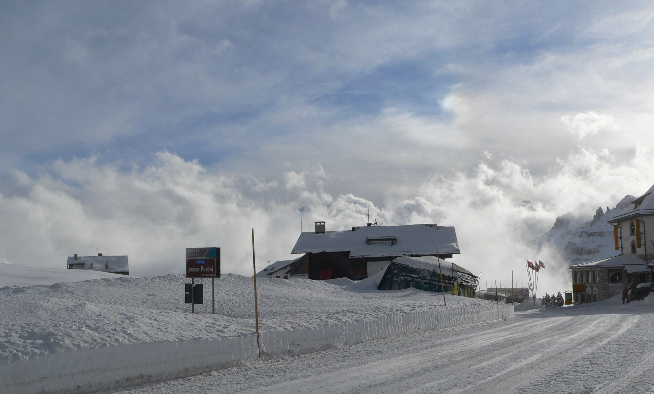 Passo Pordoi, February 2006, photo by myself, Egil Kvaleberg